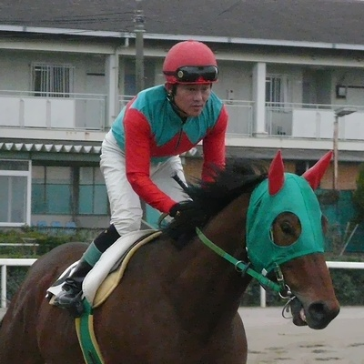 Futoshi-Komaki20111117